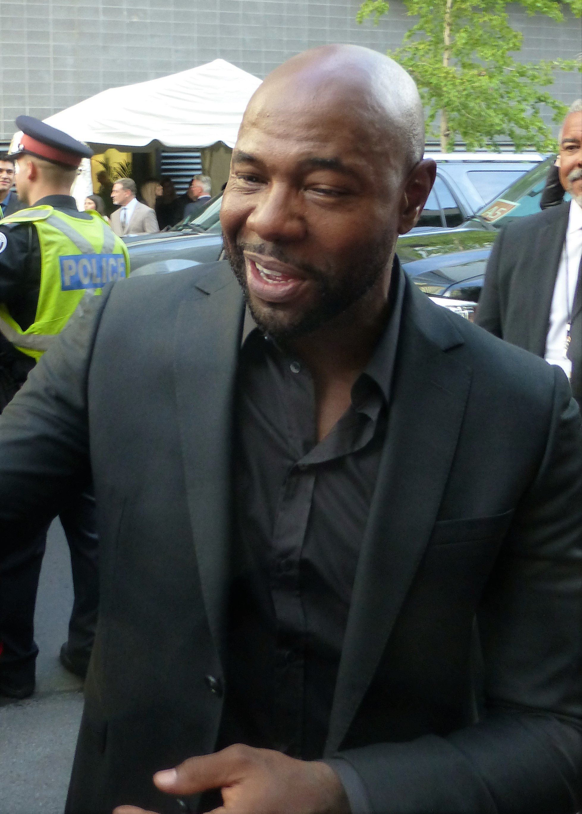 Antoine Fuqua at the press conference of The Magnificent Seven, 2016 Toronto Film Festival